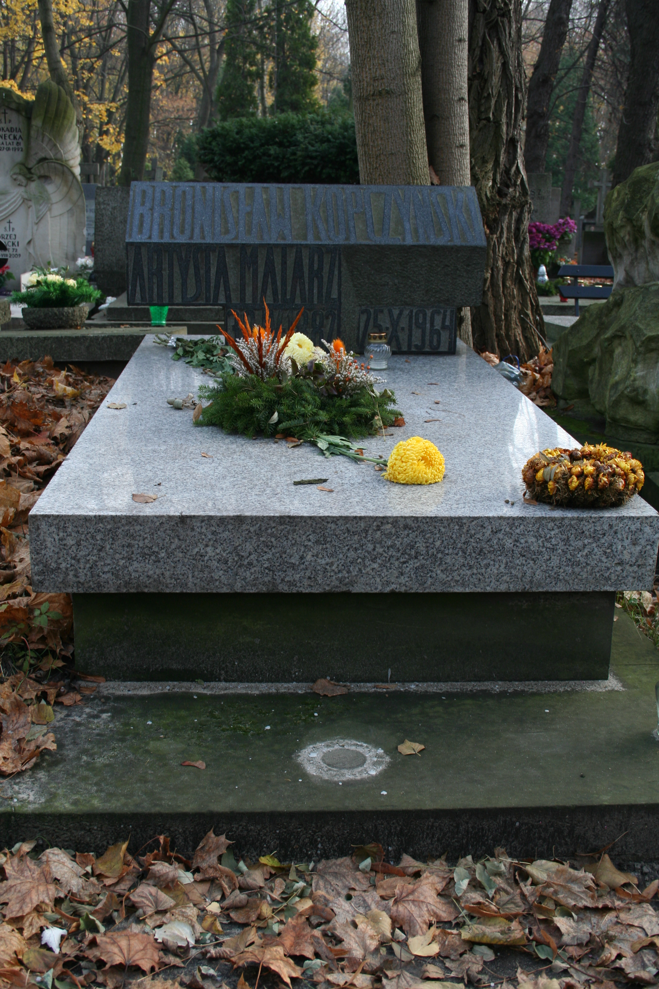 Grave of Bronisław Kopczyński at Powązki Cemetery in Warsaw, Poland